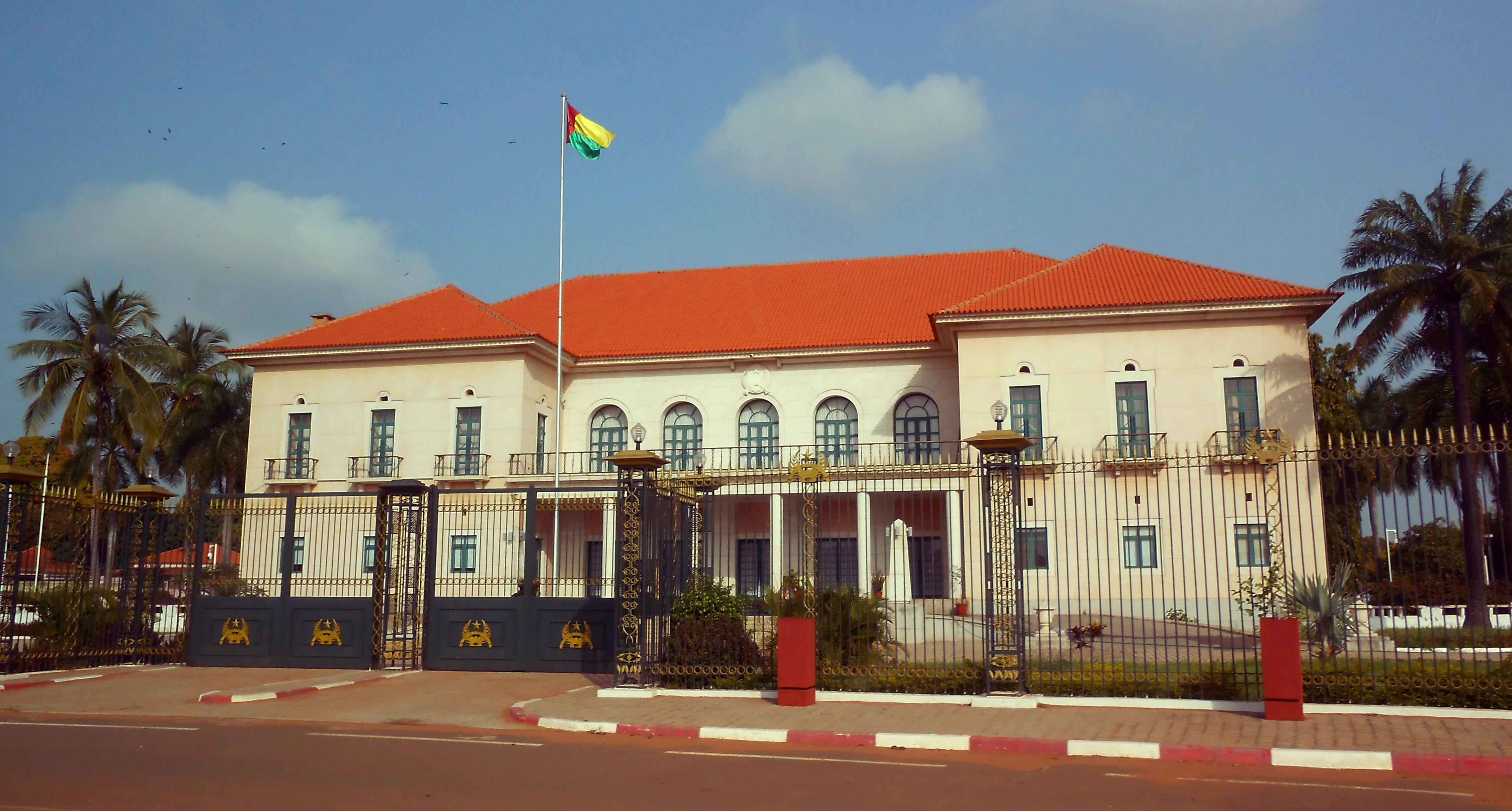 The presidential palace in Bissau, formerly the palace of the colonial governor of Portuguese-Guinea, located at the Praça dos Herois Nacionais square (formerly Praça do Império square).